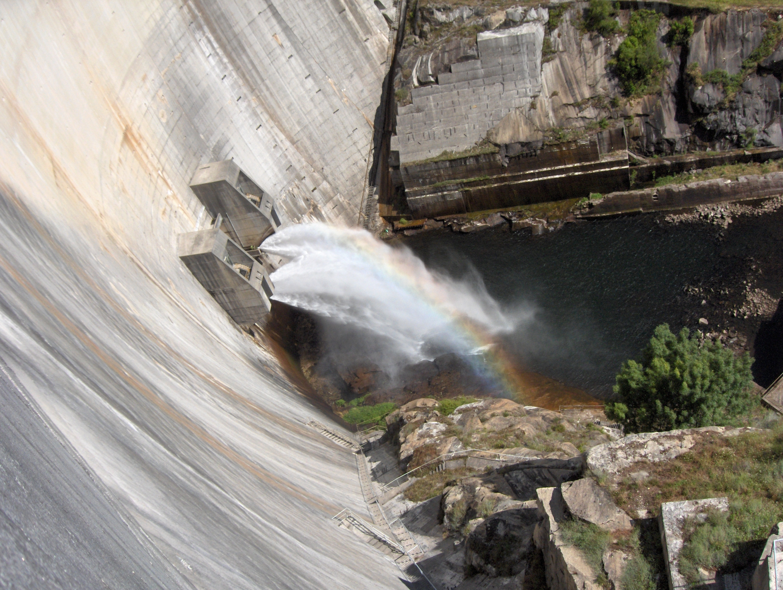 Lindoso dam in Parque Nacional da Peneda-Gerês, Portugal